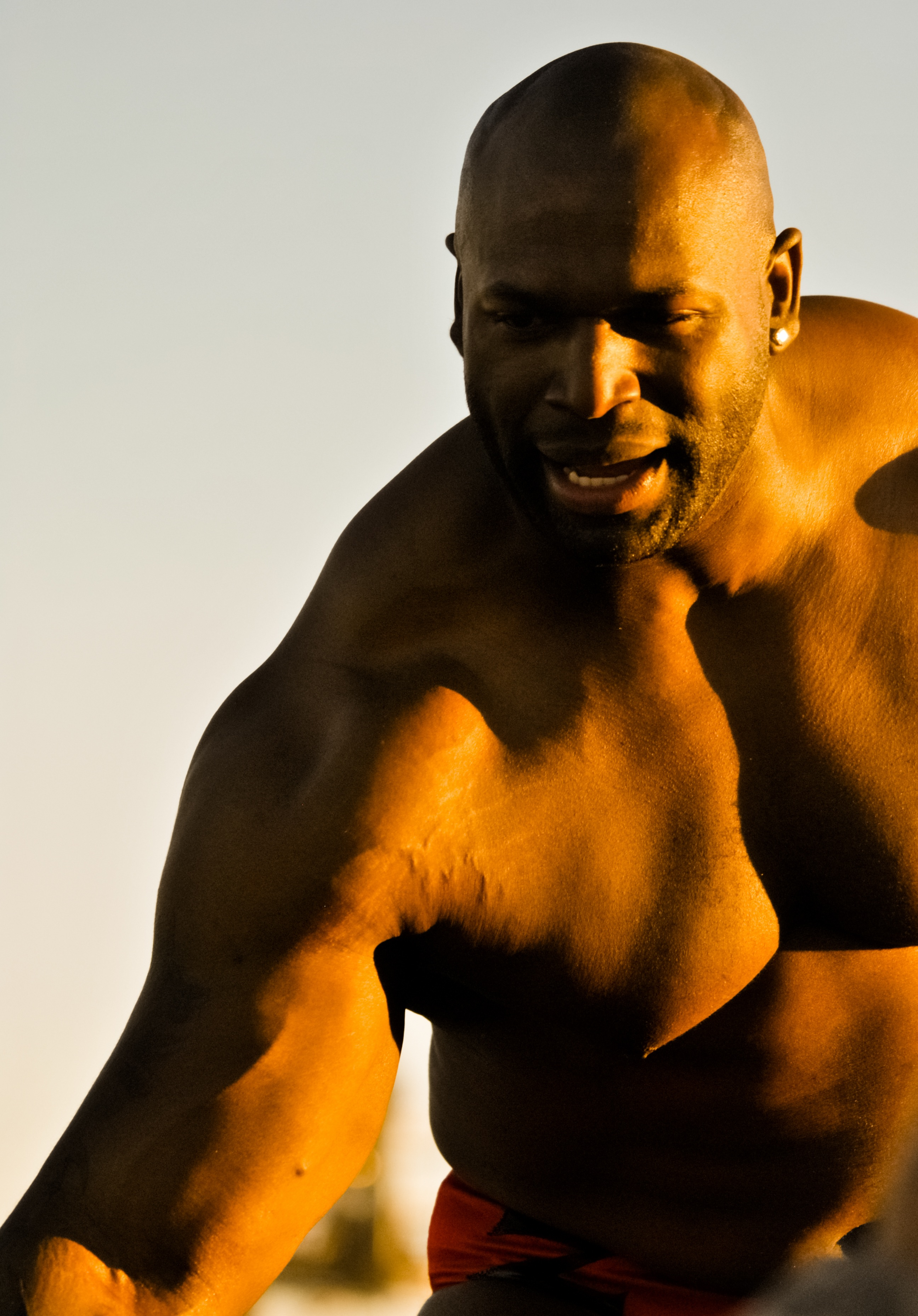 Ezekiel Jackson at WWE's 2010 Tribute to the Troops show in Fort Hood, Texas.